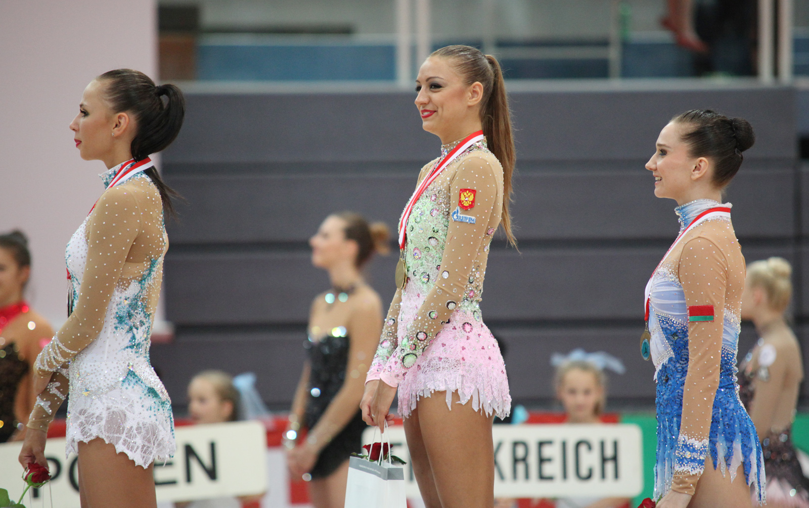 Grand Prix Rhythmic Gymnastics in Austria (Hard) 2012. Kanaeva vor Dmitrieva and Liubov Charkashyna.